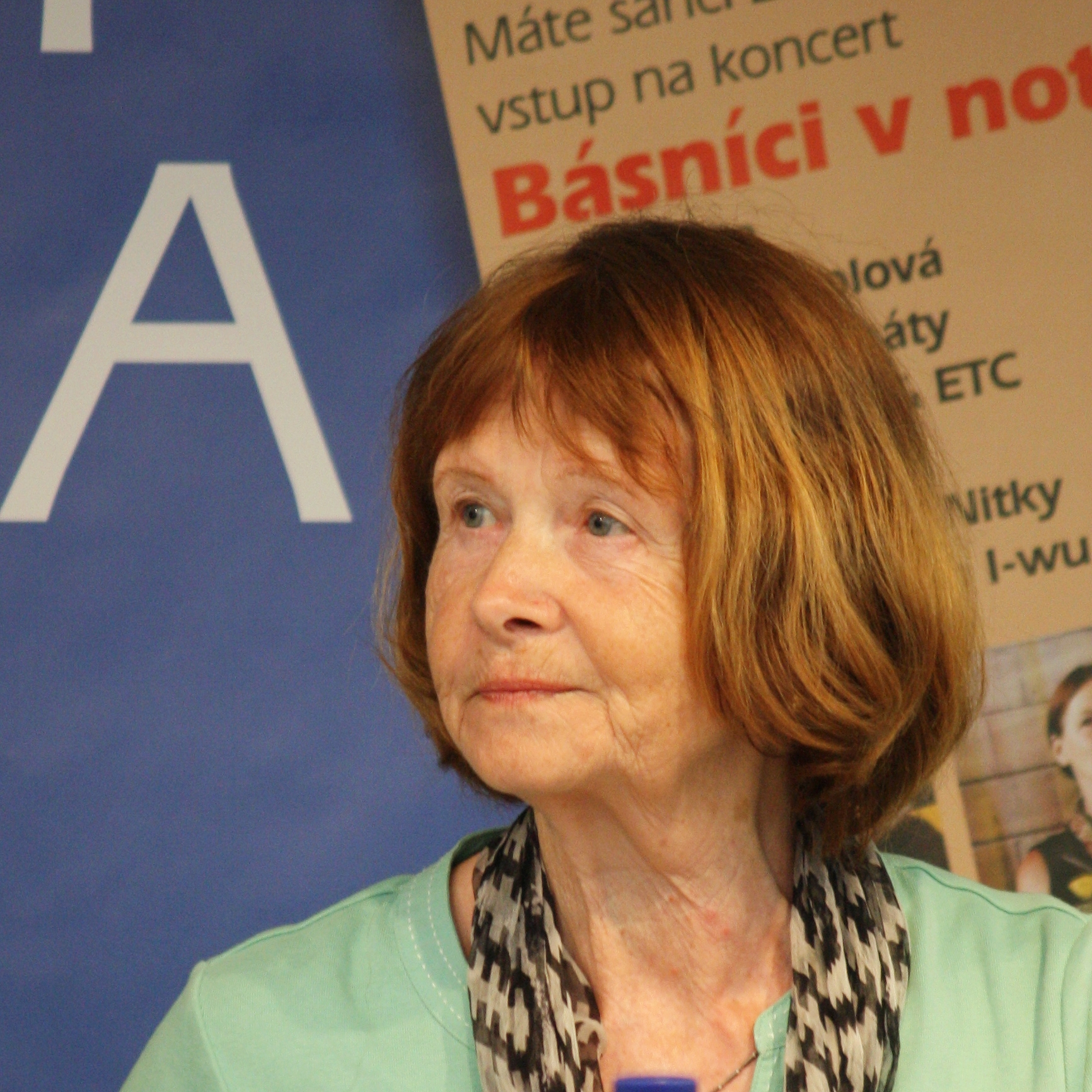 Česky: Svět knihy 2013 Personality rights warning This work depicts one or more identifiable persons. The use of depictions of living or deceased persons may be restricted by laws regarding personality rights. The extent of these restrictions depends on jurisdiction. Personality rights restrictions apply independently of copyright. Before using this content, please ensure that the intended use does not infringe any personality rights under applicable laws. You are solely responsible for ensuring that you do not infringe someone else's personality rights. See our general disclaimer.